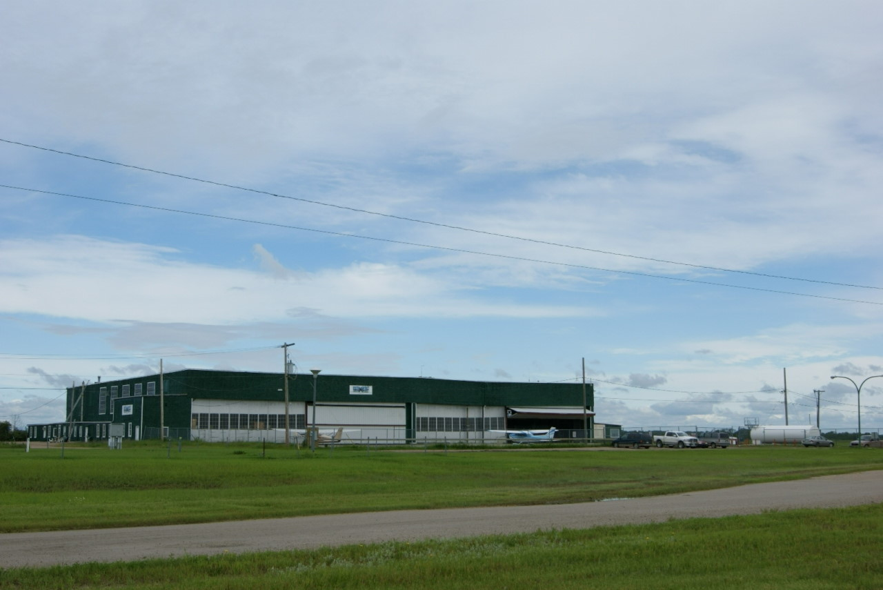 Yorkton hangar - one remaining of several which had been in operation.